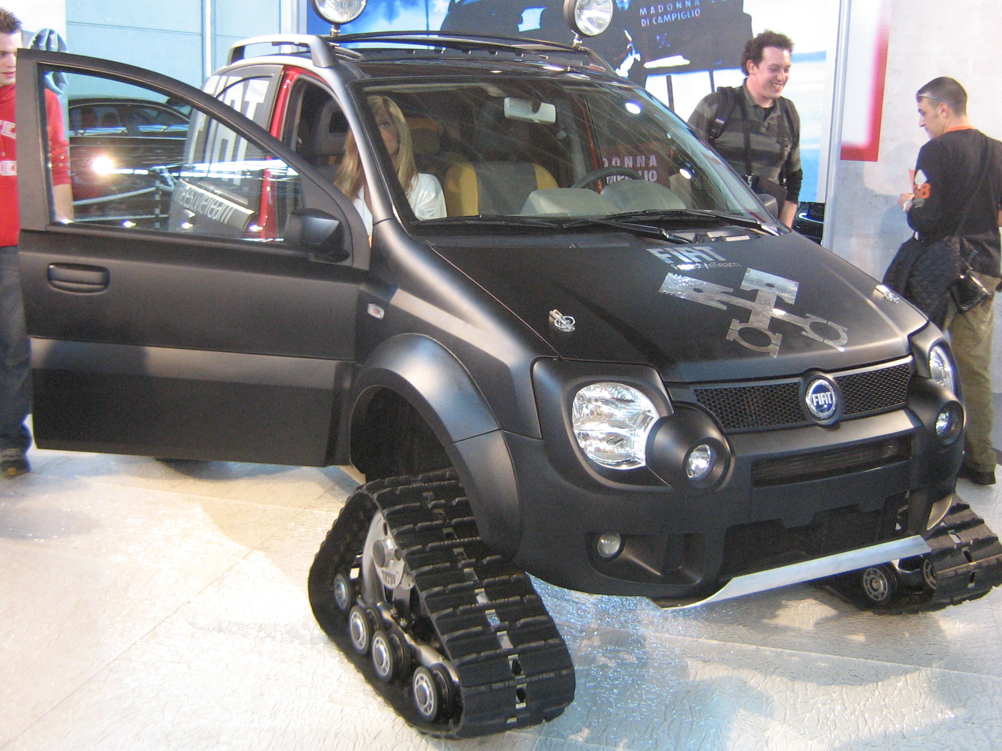 A caterpillar version of Fiat Panda (2003) at My Special Car Show 2007